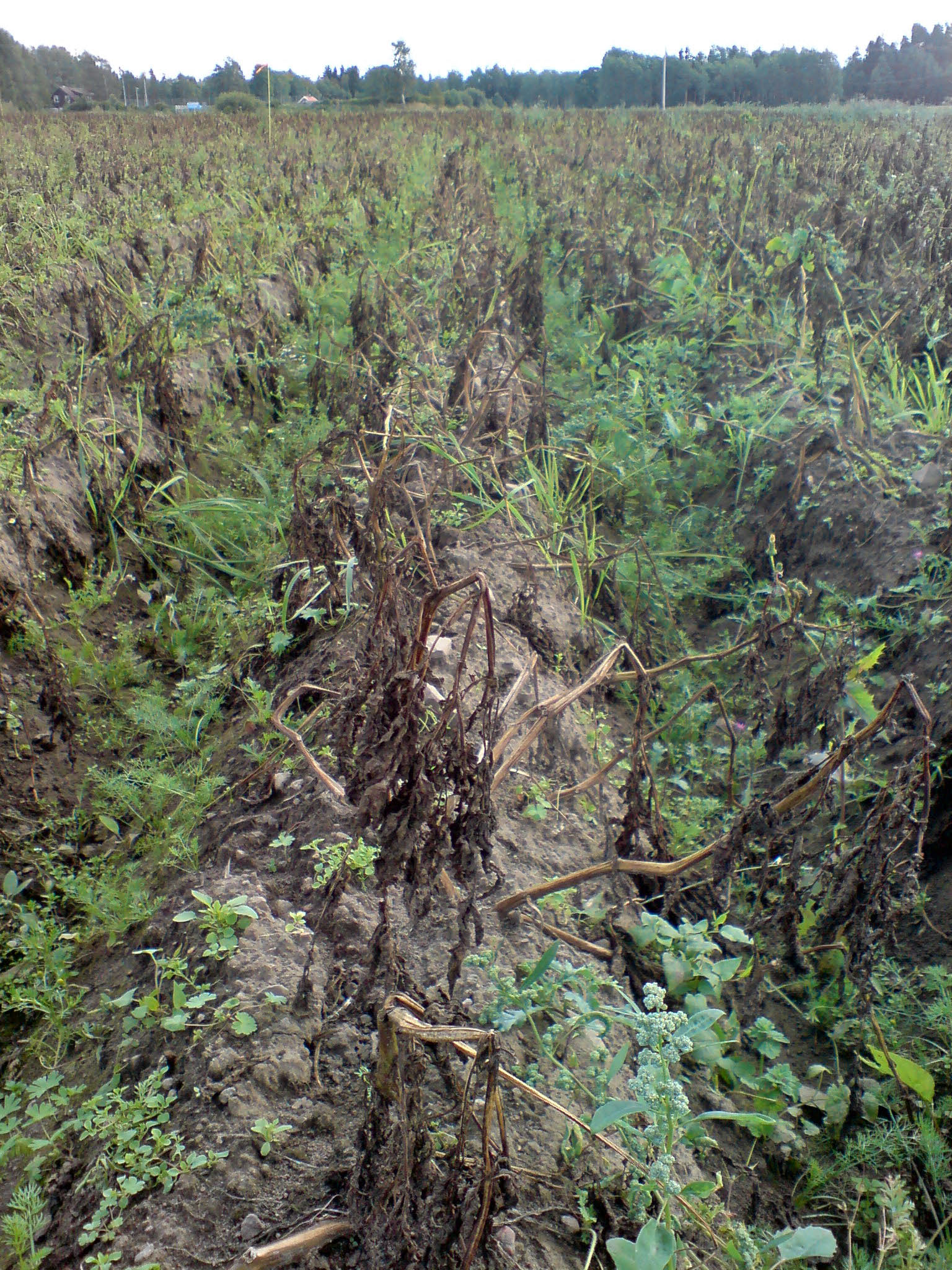 Potato field heavily infected by P. infestans